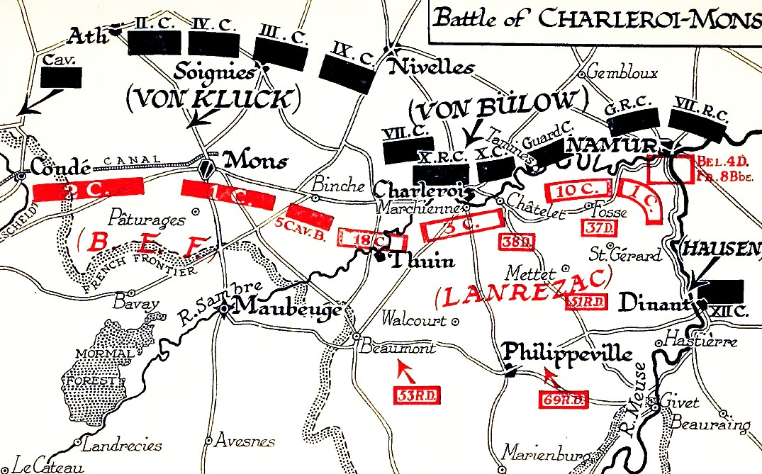 Map: Battle of the Sambre (Charleroi-Mons) August 1914